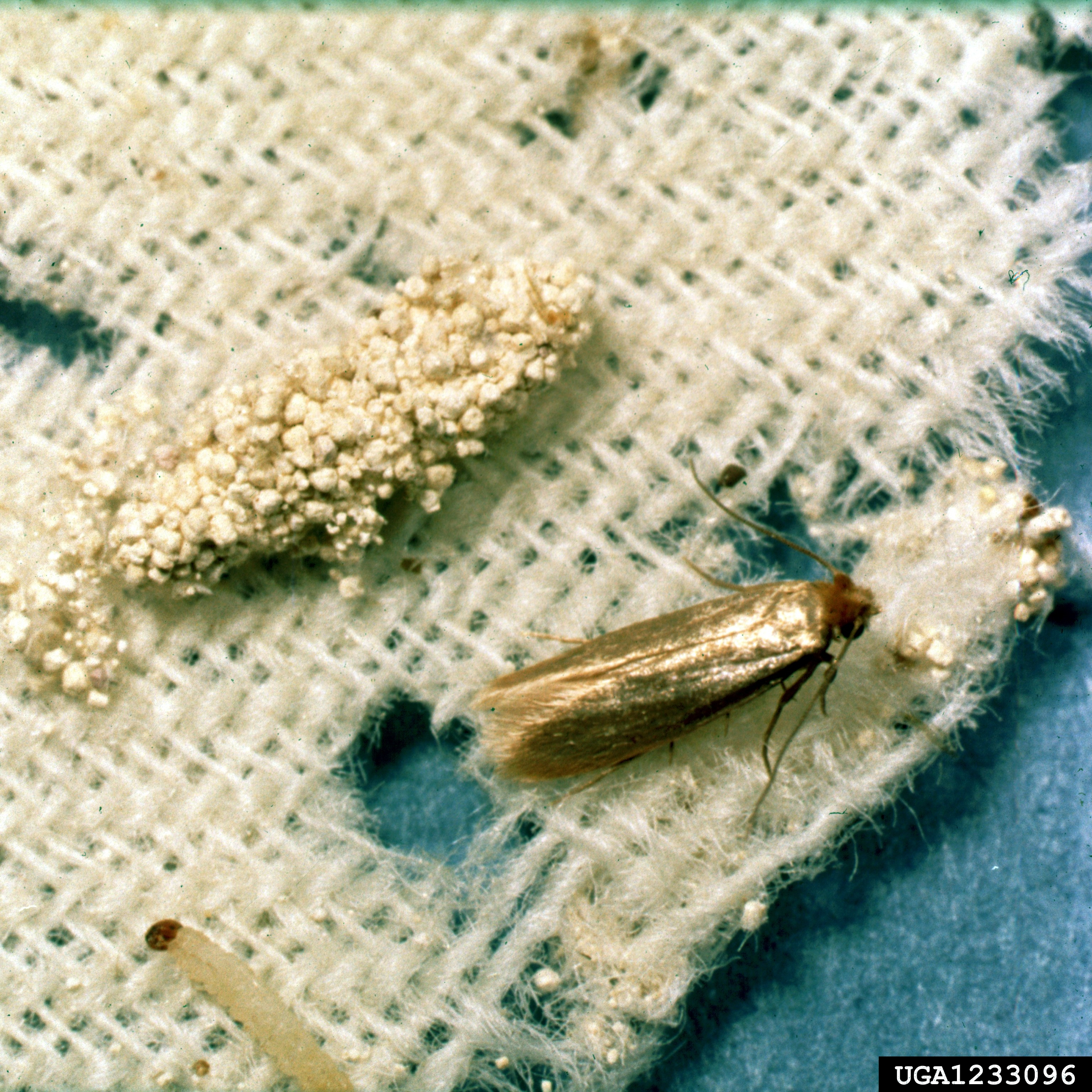 webbing clothes moth ; Tineola bisselliella (Hummel) ; from : Clemson University - USDA Cooperative Extension Slide Series